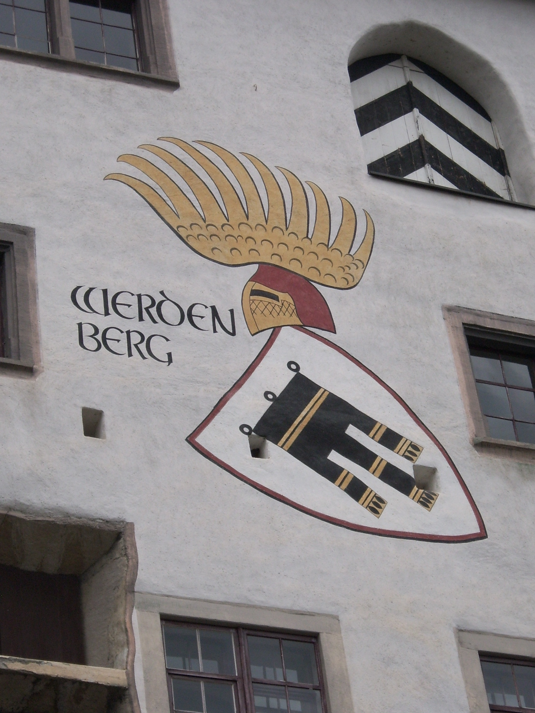 The Montfort-Werdenberg coat of arms on a castles wall in Werdenberg (St. Gallen/Switzerland)